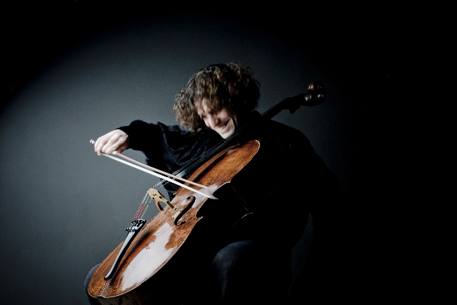 Gavriel Lipkind playing on the Zihrhonheimer cello